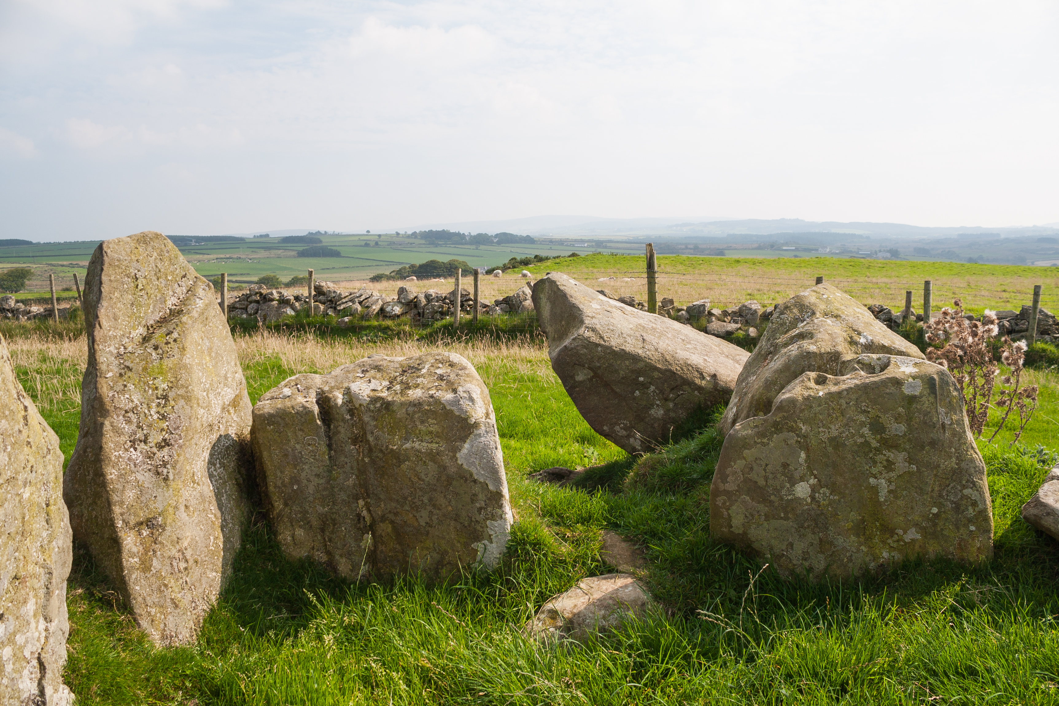 Entrance jambs of the eastern chamber of the Laraghirril court tomb, as seen from inside looking south-east.